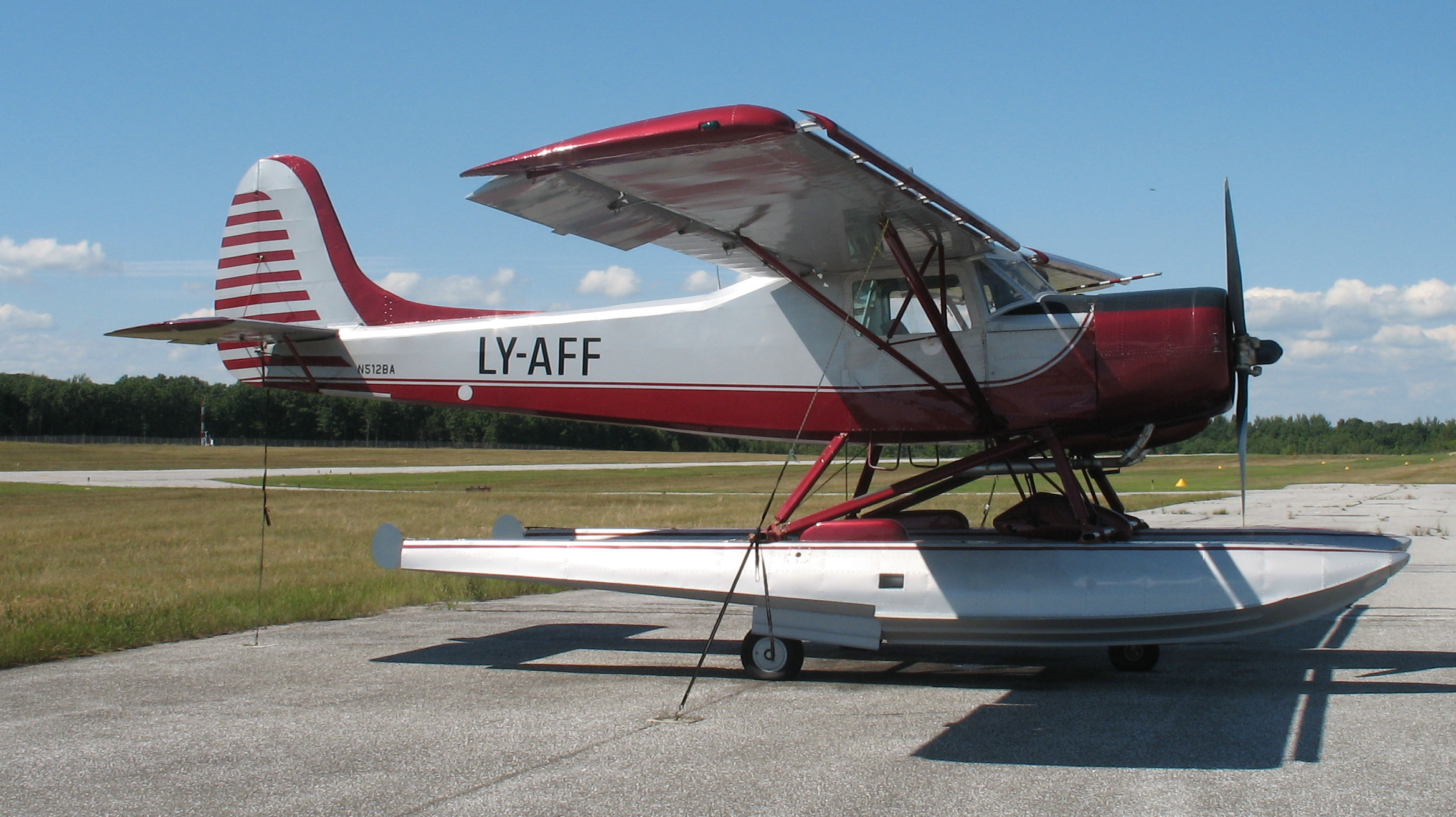 YAK-12 (LY-AFF) on floats, Franklin County State Airport, Highgate, VT